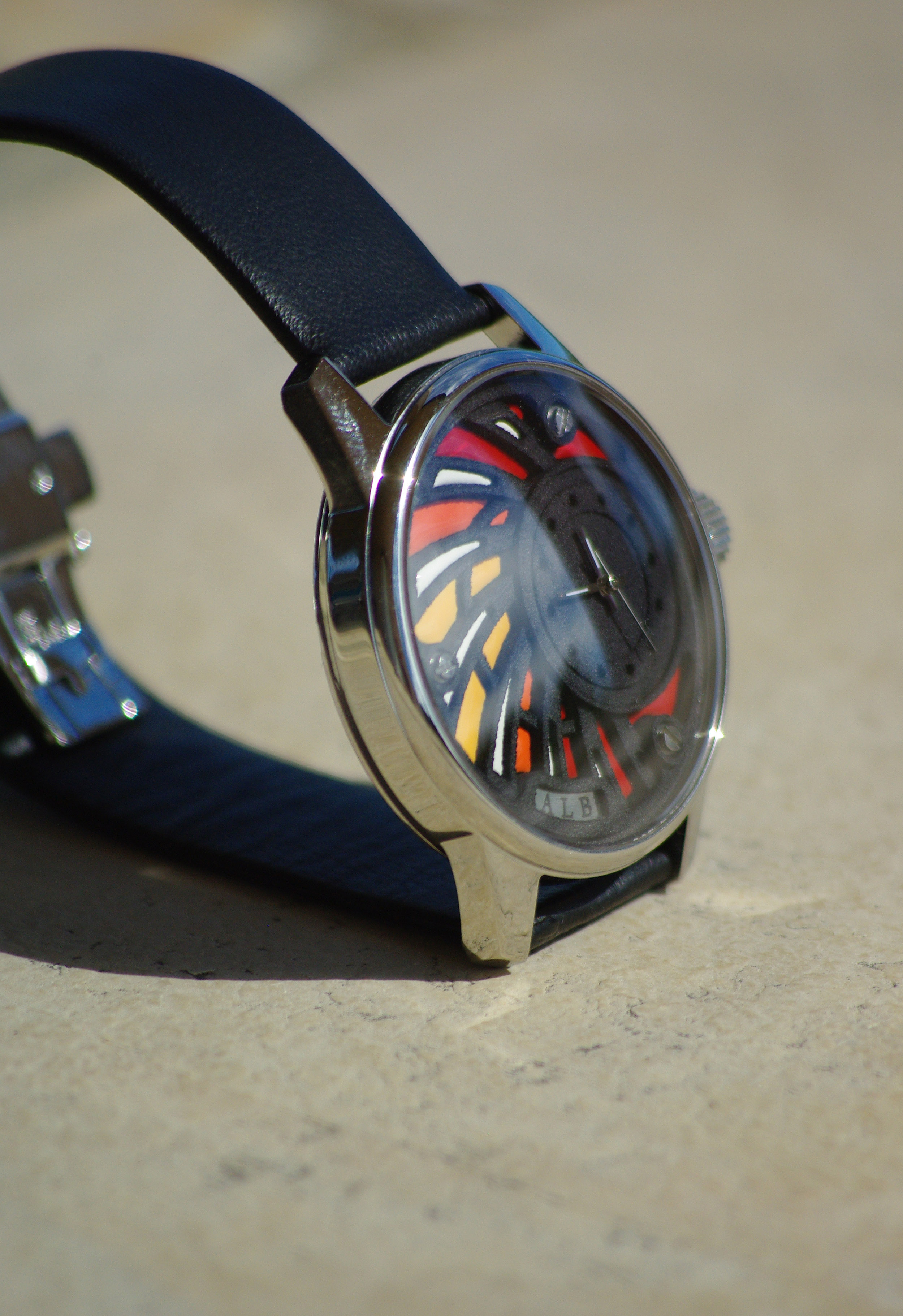 Picture made in Toulouse (France) by the photographer Marie Durin for A.L.B Watches. The model is A.L.B 100.